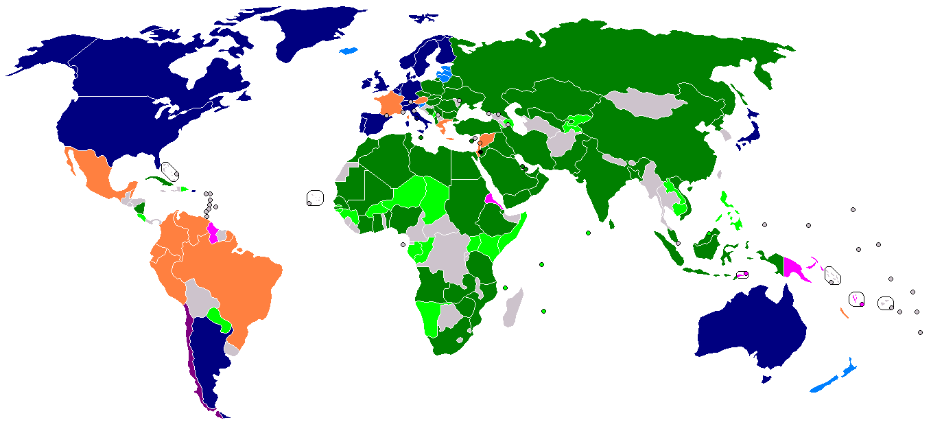 missions of Palestine abroad: dark green - State of Palestine embassy; light green - State of Palestine non-resident embassy; dark lila - Palestine (PLO) embassy; light lila - Palestine (PLO) non-resident embassy; dark blue - Palestine (PLO) general delegation; light blue - Palestine (PLO) non-resident general delegation; orange - Palestine (PLO) other mission type (non-resident or resident: special delegation, special mission, mission, representation, department)